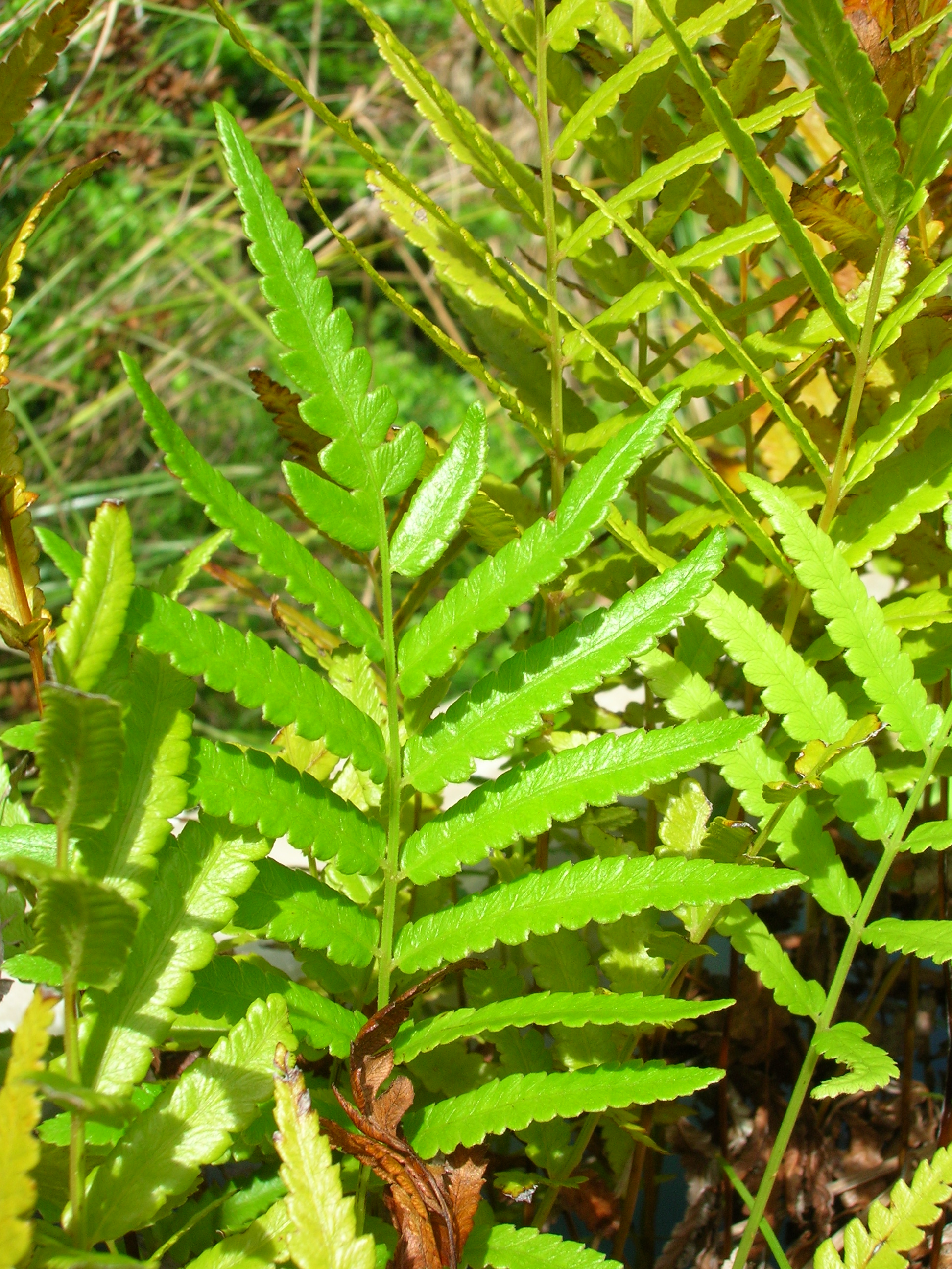 Cyclosorus interruptus (habit). Location: Maui, Hoolawa Farms